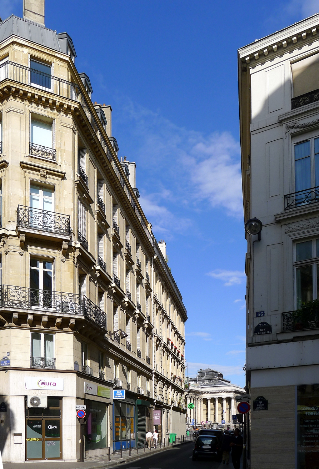 Filles Saint-Thomas street - Paris